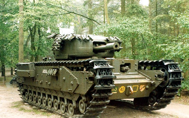 Churchill Mark V (English wiki entry here [1]) with 95 mm howitzer main gun and 2 (BESA) machine guns. Festooned with extra armour in the form of spare track links. Attribution reads (to me) as "Squadron of the 4th Battalion of the British 6th Armoured Brigade, damaged (?) in a minefield at Overloon in the Netherlands"